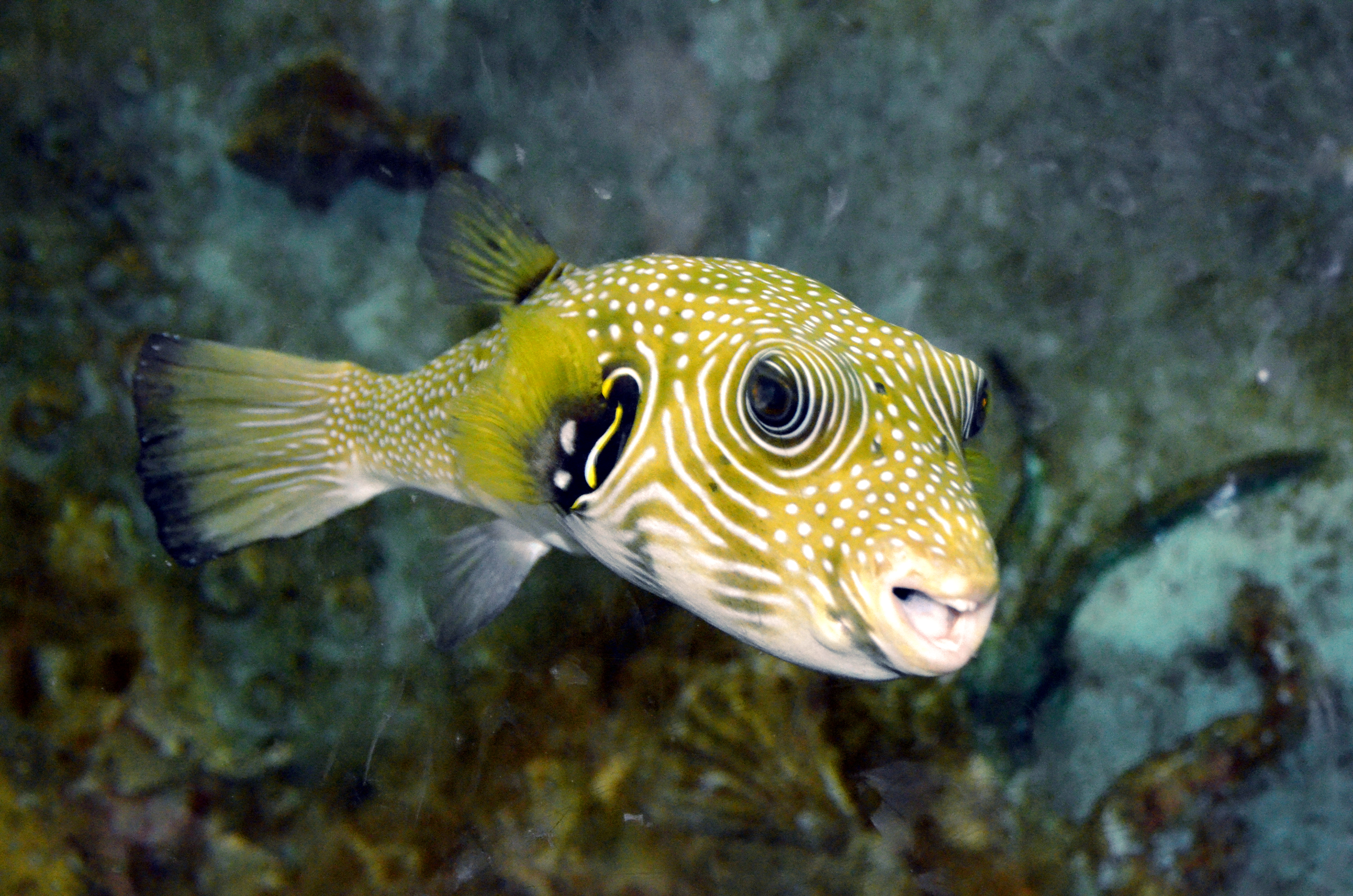 White spotted puffer